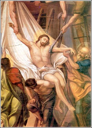 The Deposition